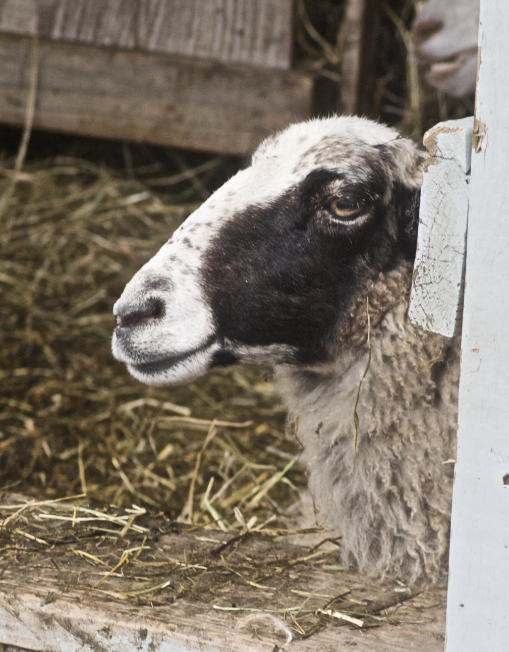 Romanov Sheep